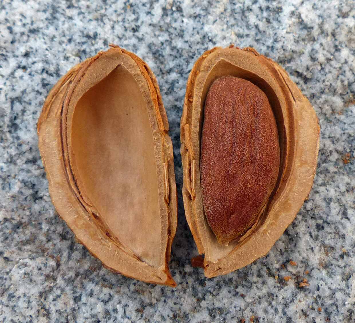 Almond - a fruit broken open, showing the edible kernel.